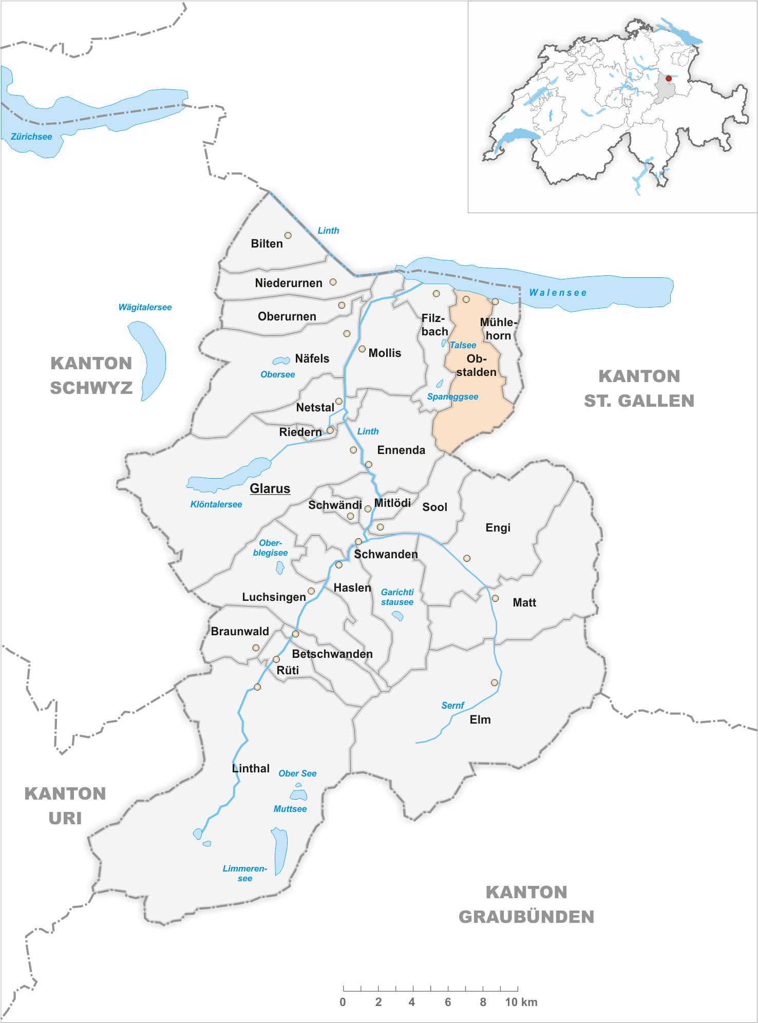 Municipality Obstalden